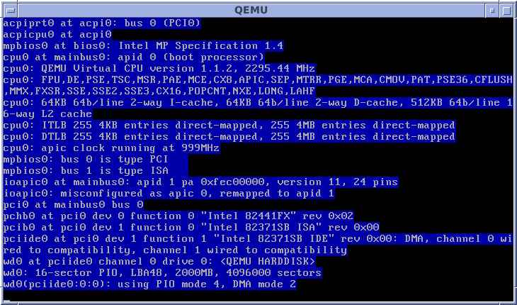 OpenBSD 5.3 startup. Running in a QEMU VM.